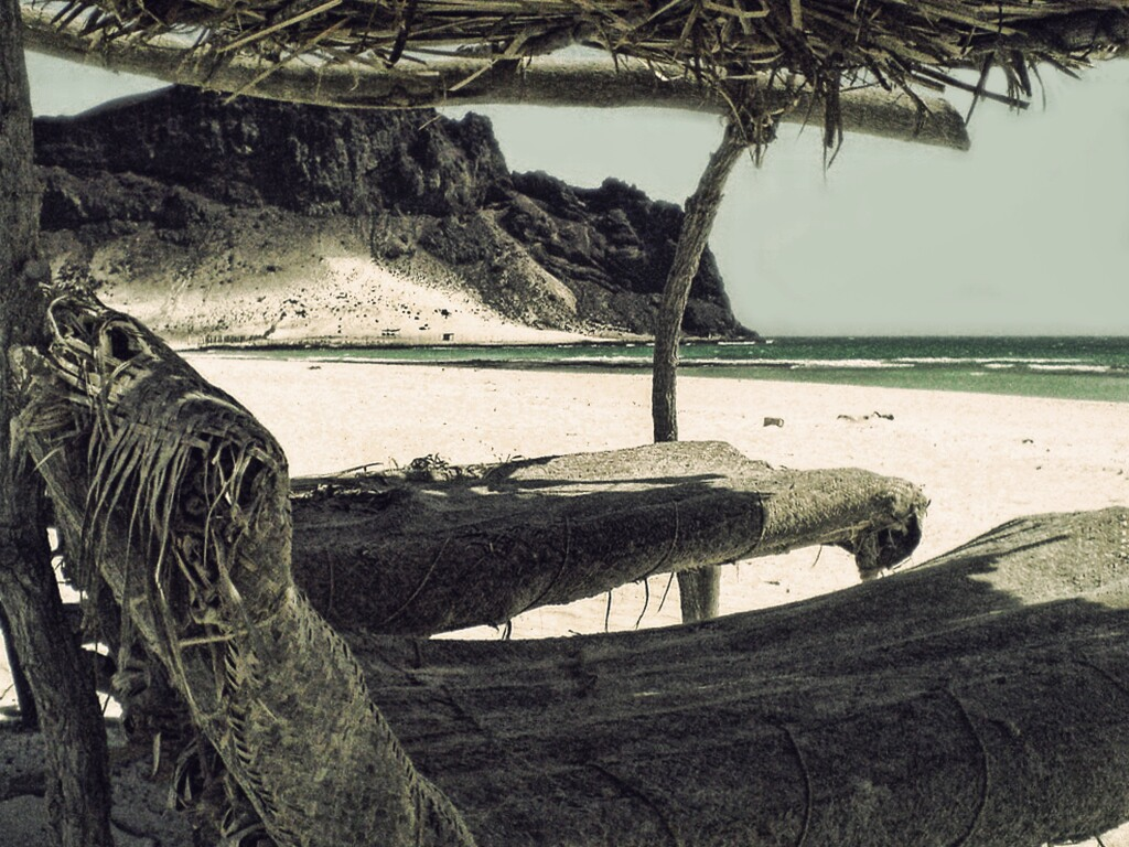 Bir Ali Beach Shabwah Governorate Yemen